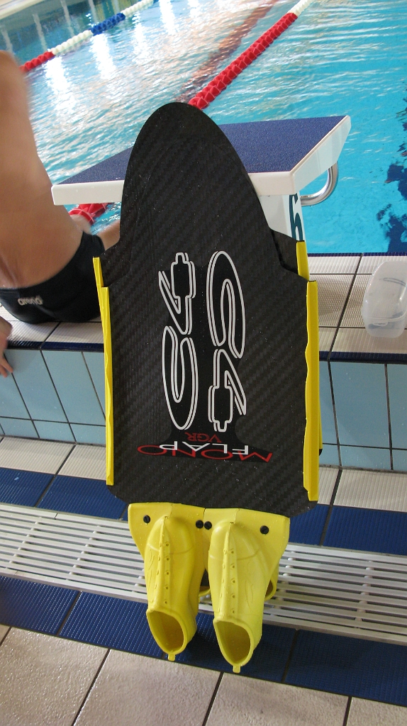 C4 monofon